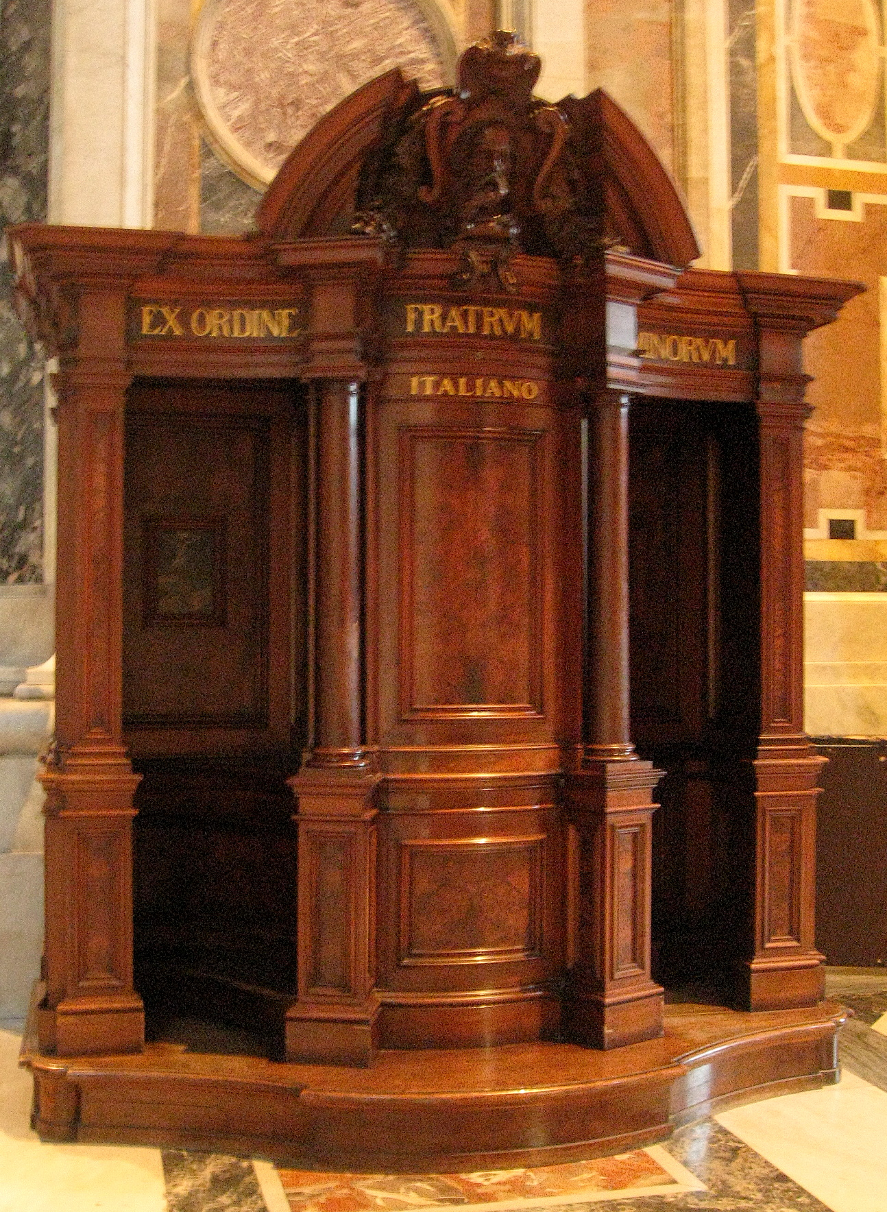 Confessional at St. Peter's Basillica, Vatican.